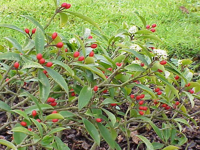 Species: Skimmia reevesiana Family: Rutaceae Image No. 5